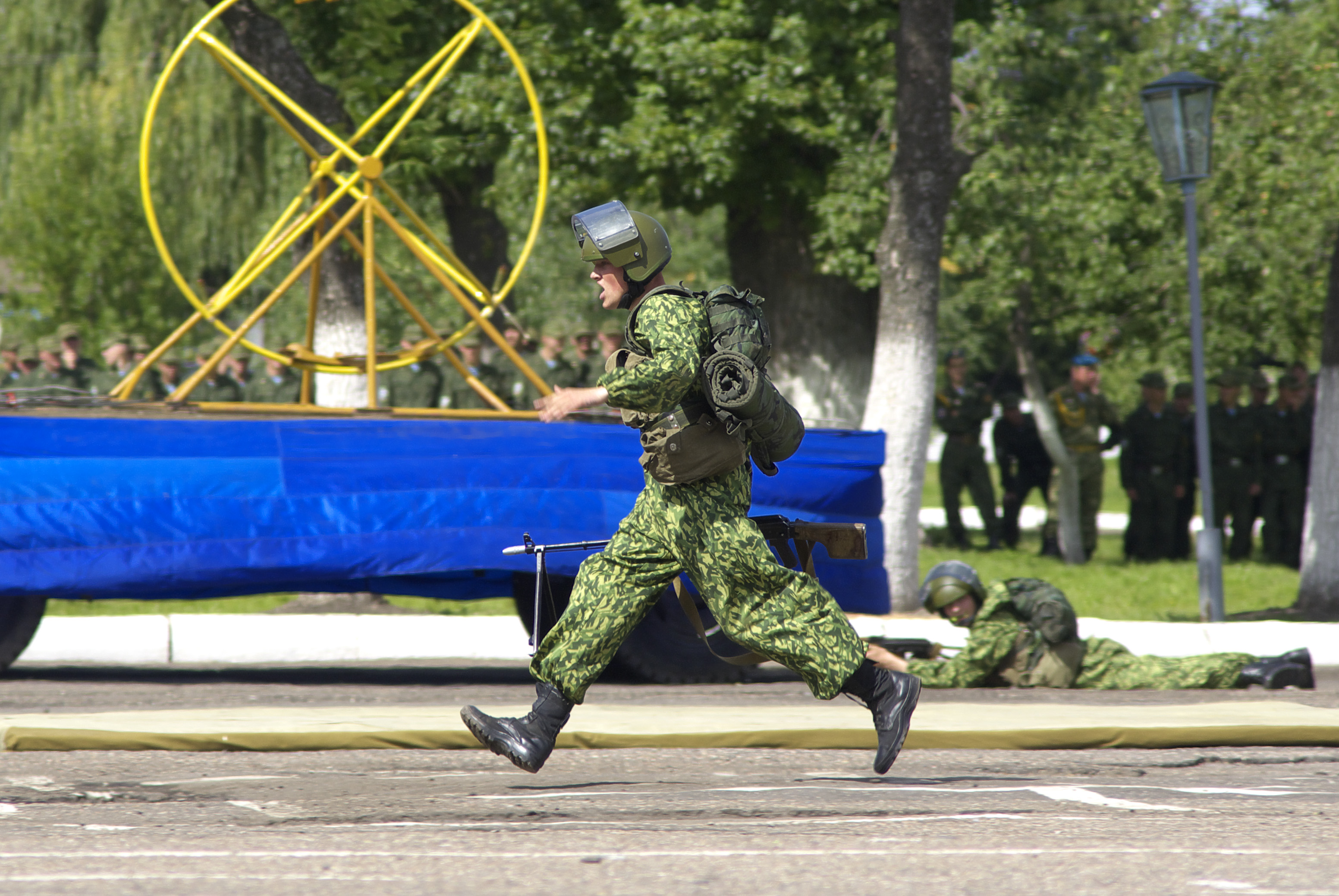 Soldier of 103rd Guards separate mobile brigade runs with RPK mashine gun